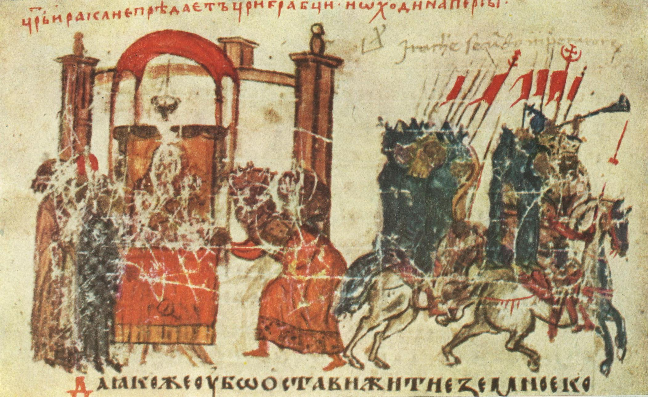 Miniature 43 from the Constantine Manasses Chronicle, 14 century: Emperor Heraclius entrusts the capital city to an icon of Mary and sets off on a campaign against the Persians.